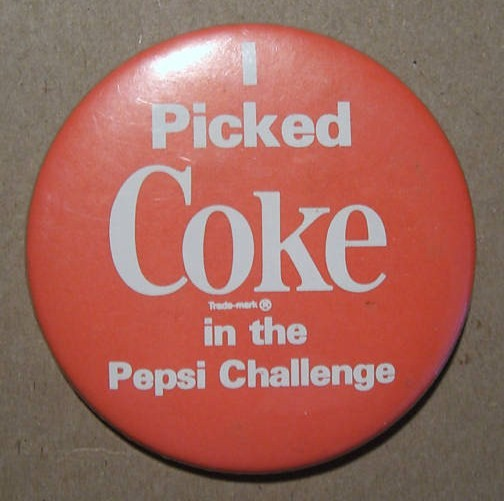 A Coke pin